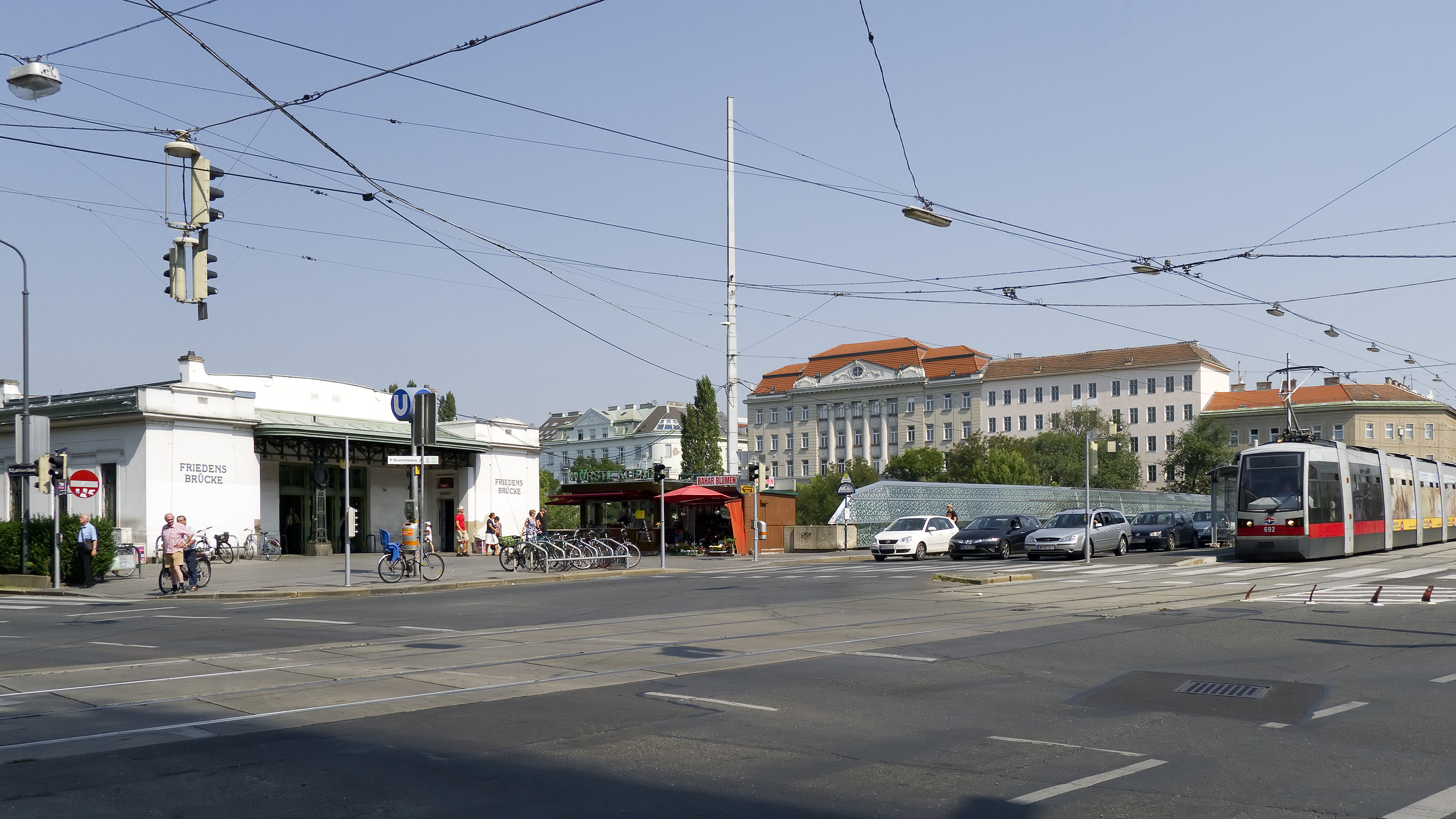 Tram Line Linie 5, Station Friedensbrücke, Vienna